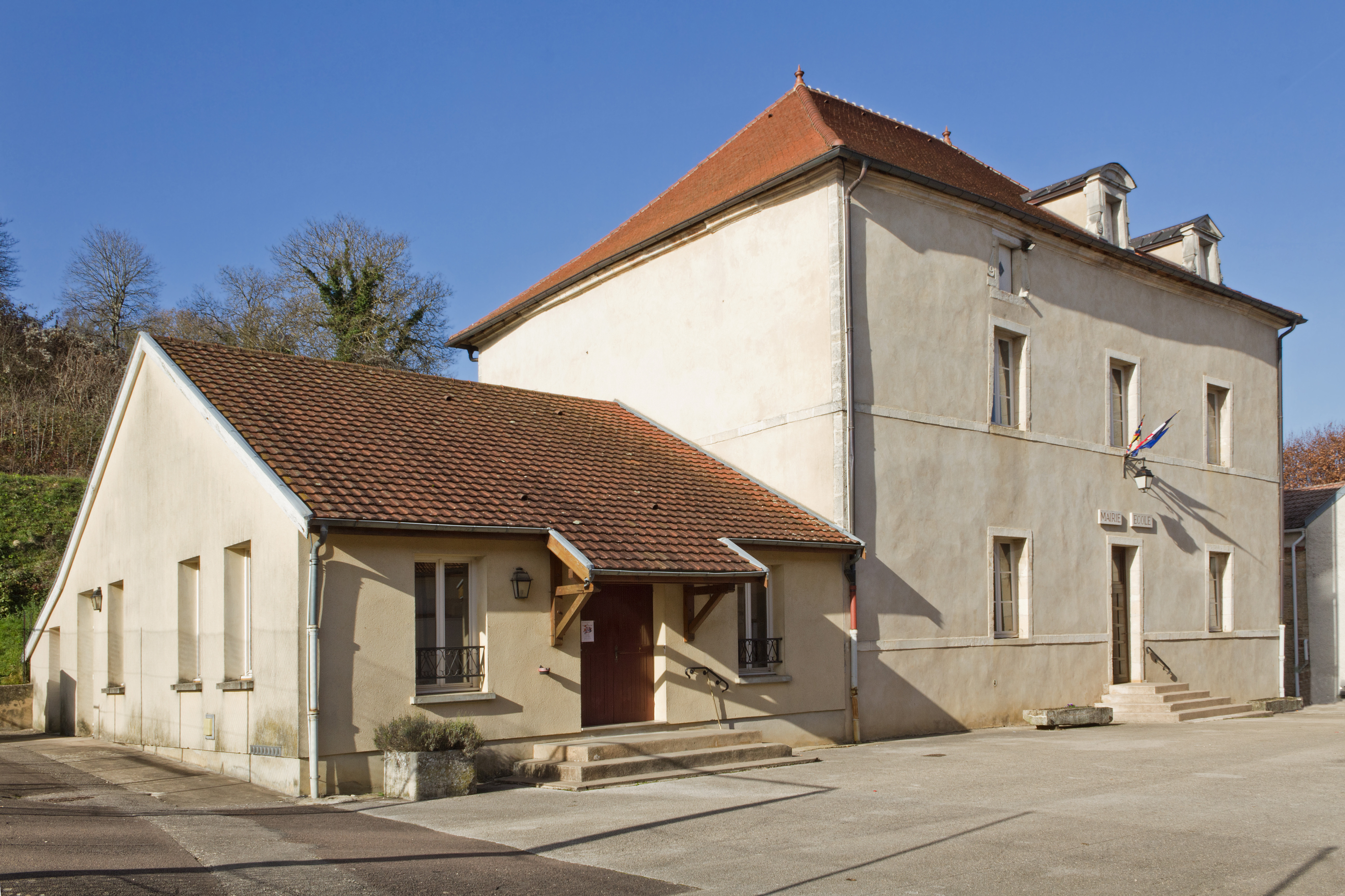 Townhall and school of Saulx-le-Duc